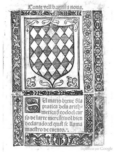 Front page of Sumario breve dela practica dela Aritmetica (1515) by Juan Andrés.